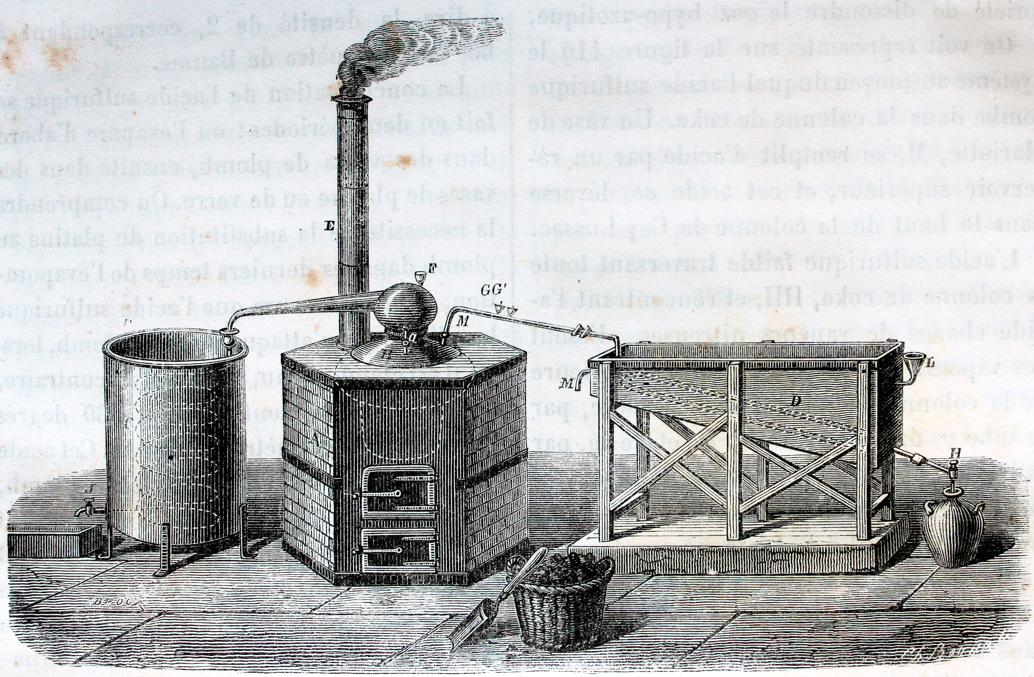 Platinum alembic for concentrating sulfuric acid.